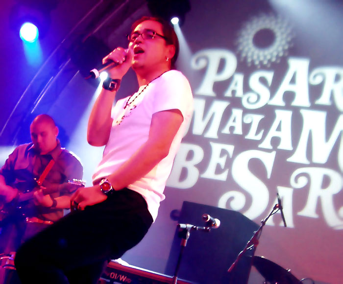 Third generation Eurasian artists from The Netherlands perform at the Pasar Malam Besar.